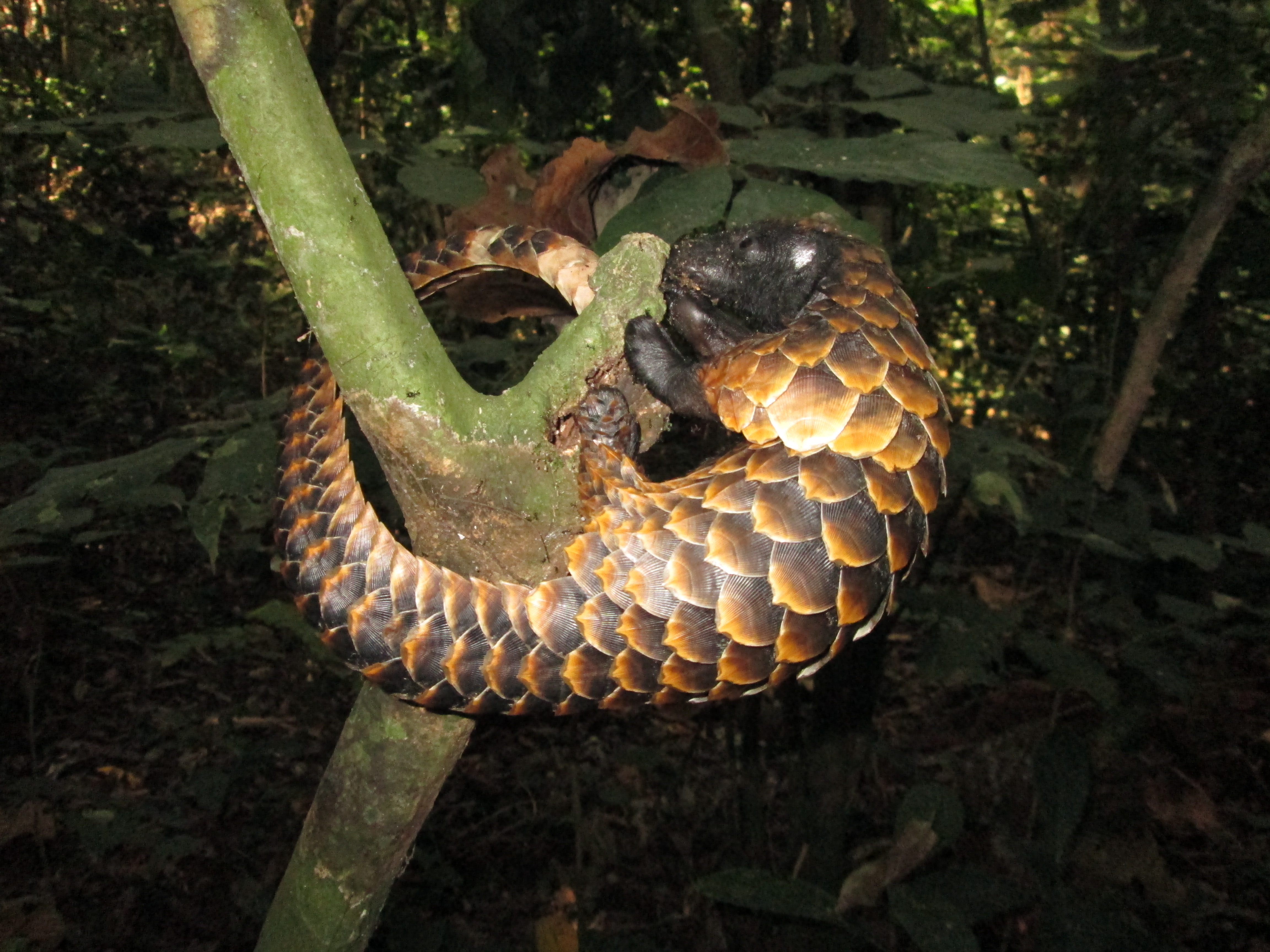 Photo credit to Rod Cassidy / Sangha Lodge The United States is co-sponsoring four separate proposals to increase CITES protections for pangolins from Appendix II to Appendix I